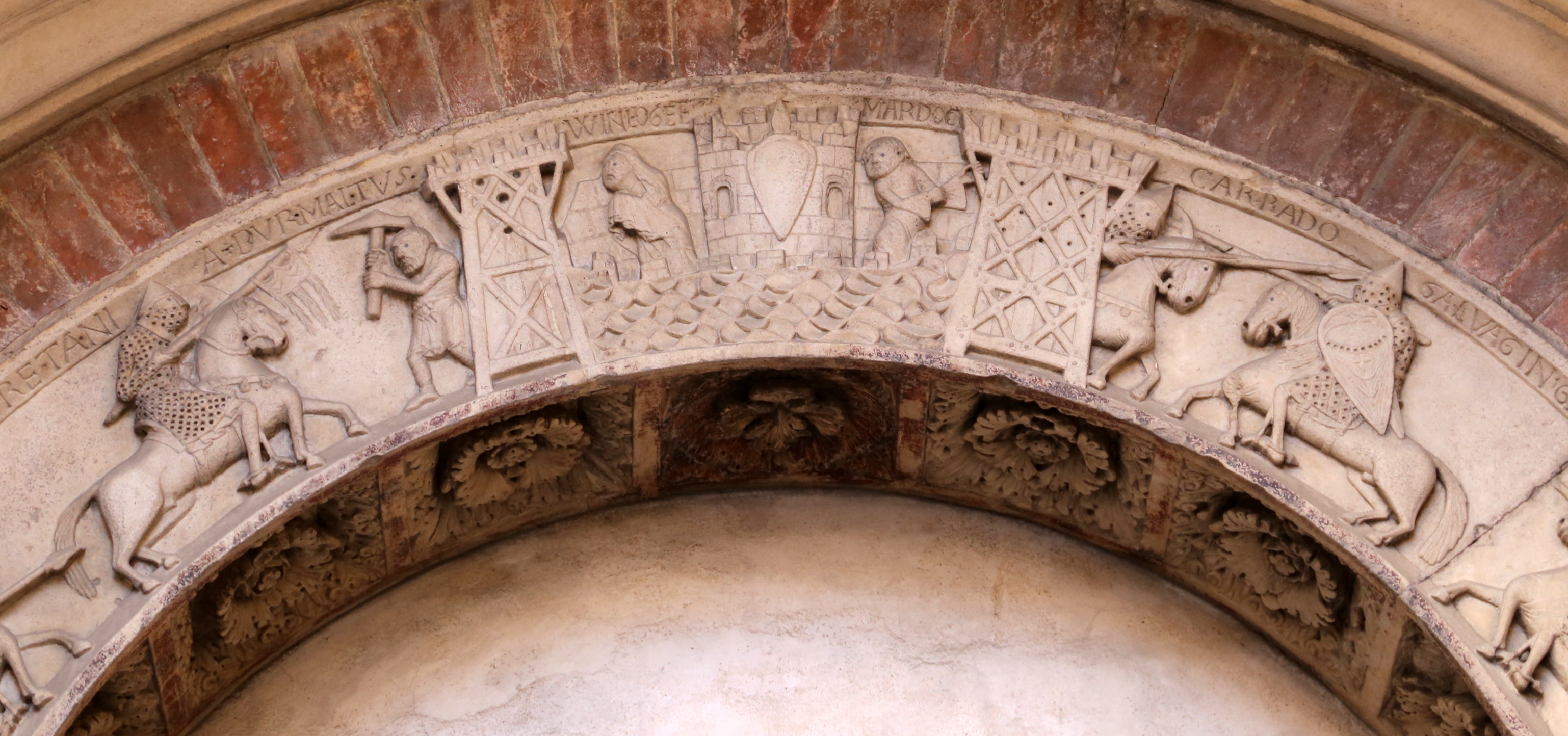 Detail of relief sculptures on the archivolt of the north portal of Modena Cathedral carved by Wiligelmo in the early 12th century